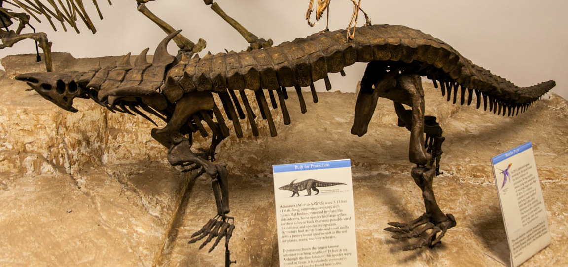 This is a very cool National Park southeast of Holbrook, AZ - well worth the detour. Heather Rice and I checked out this park as part of her American Southwest Sampler tour. We started at the southern entrance, stopping first at the Visitor Center and taking some small trails to look at the petrified wood up close and personal. The colors are amazing. We walked to the Agate House - very impressive. All sorts and sizes of petrified wood everywhere - I wondered how much is still there, uncovered. As you drive north, the landscape changes dramatically. Weird looking hills, Blue Mesa, and then you come to the Painted Desert lookouts. I wish we spent more time there but we still had a long drive ahead of us. Guess we have to go back again!! We visited this park in March 2014.